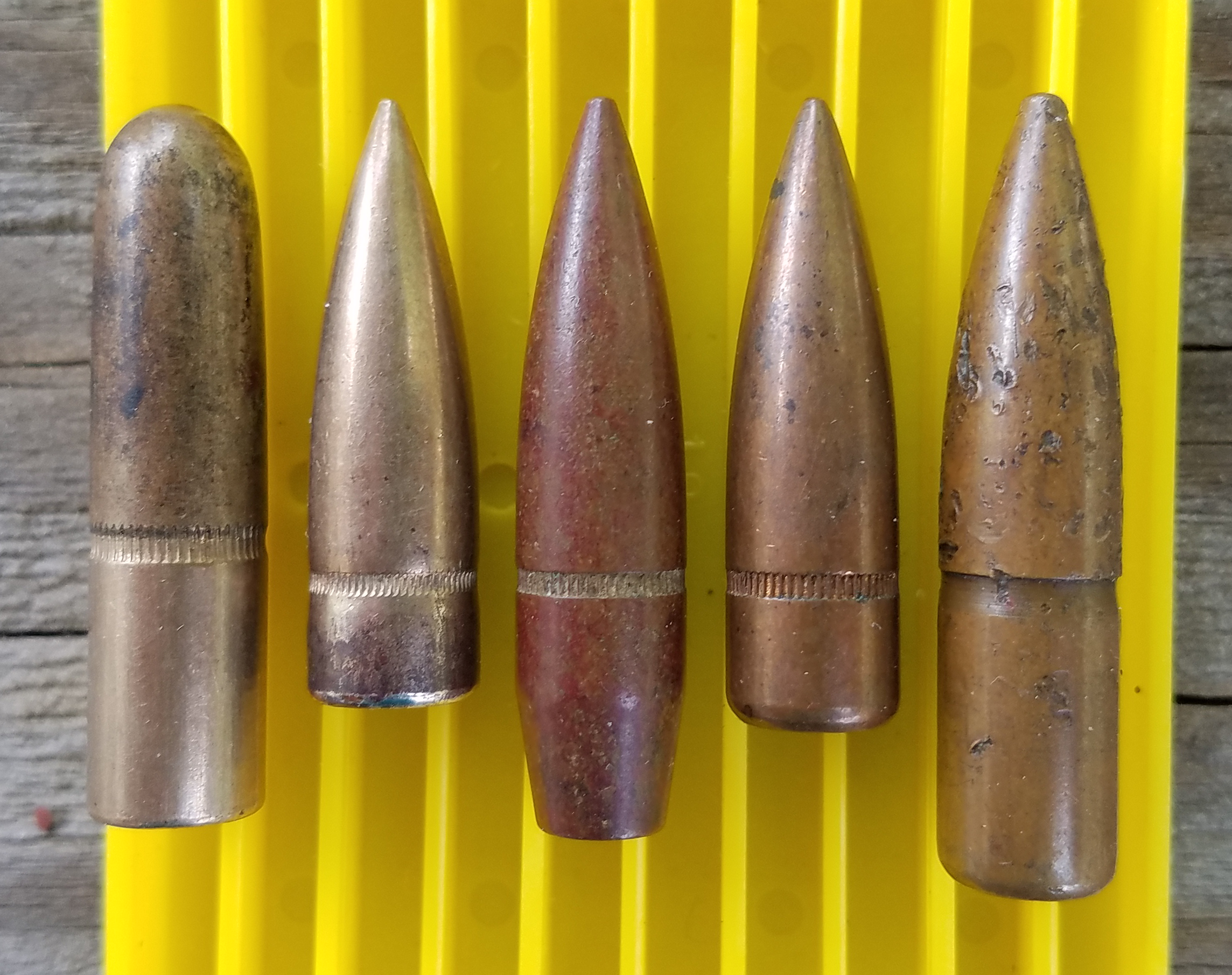 The five most common bullets used in .30-03 and .30-06 Springfield United States military loadings from left to right: M1903 bullet (220 grain round nose), M1906 ball (150 grain spitzer), M1 ball (173 grain spitzer boat tail), M2 ball (152 grain spitzer), and M2 Armor-Piercing (AP) (168 grain armor-piercing) bullet. Black paint has chipped off the tip of the AP bullet during rough handling. The cannelure indentation around each bullet is where the leading edge of the case would be crimped into the bullet. The four spitzer bullets used in the .30-06 Springfield cartridge case were loaded with a nearly identical tangent ogive exposed for reliable functioning in self-loading firearms, while the earlier M1903 bullet is positioned to illustrate the longer neck of the preceding .30-03 cartridge.